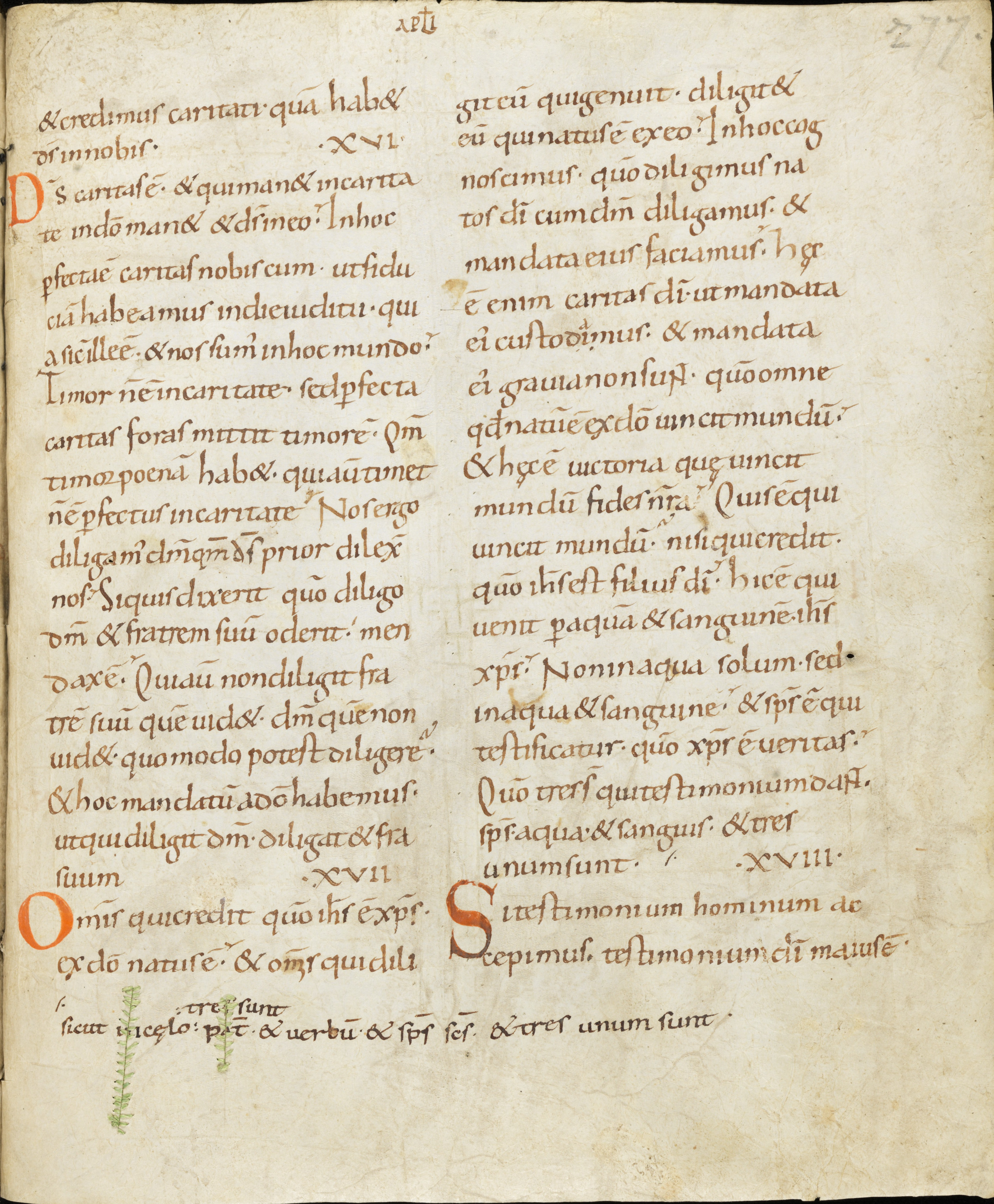 page 277 of the codex, with the Comma Johanneum at the bottom margin. Latin text there: sicut i.icelo [?] tre[s] sunt pat[er] & uerbu[m] & sps [=spiritus] scs [=sanctus] & tres unum sunt. So (translation:) "....three are the father and the word and the holy spirit and the three are one." Immediately above this Comma, we find in the left column 17 omnis qui credit quo[niam] ihs [=Iesus] e[st] xps. [=Christus] ex do [=domine] natus e[st] & omnis qui dili which is the beginning of 1 Joh 5:1 from the Vulgate "1 omnis qui credit quoniam Iesus est Christus ex Deo natus est et omnis qui diligit eum qui genuit diligit eum qui natus est ex eo"